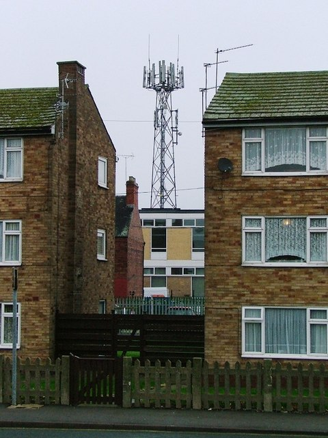 Mobile Phone Mast, Goole, East Riding of Yorkshire, England.